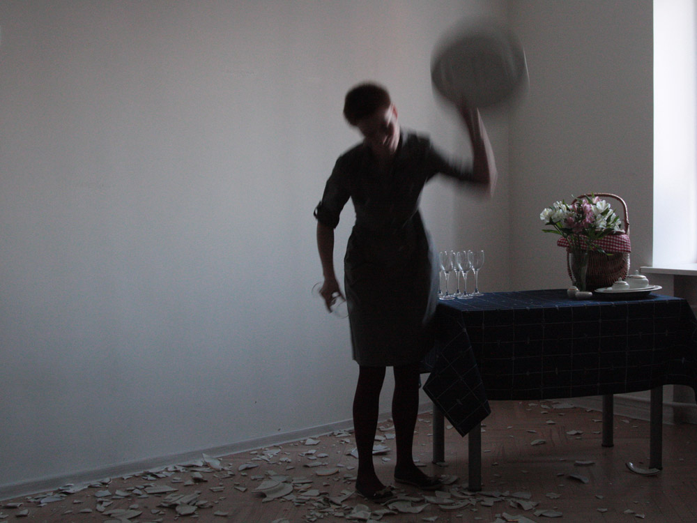 Mikaela - Russian artist. 2014